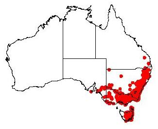 Exocarpos strictus Occurrence data from Australasian Virtual Herbarium downloaded 2019-08-24 using